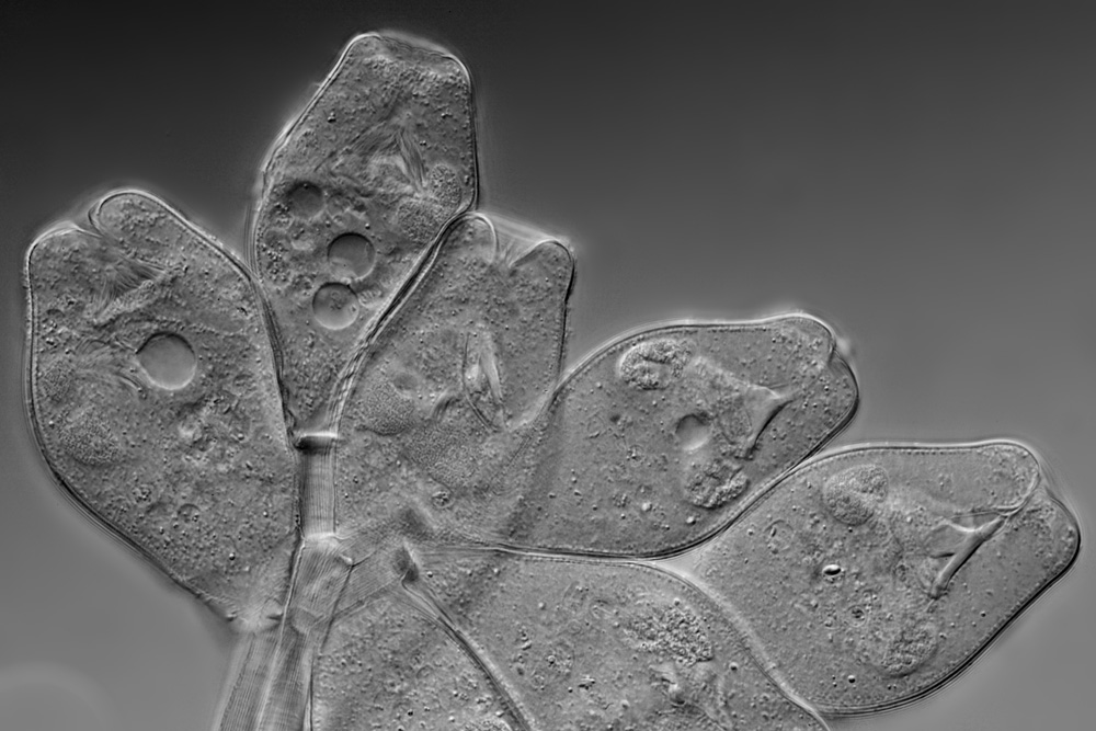 Vorticella species